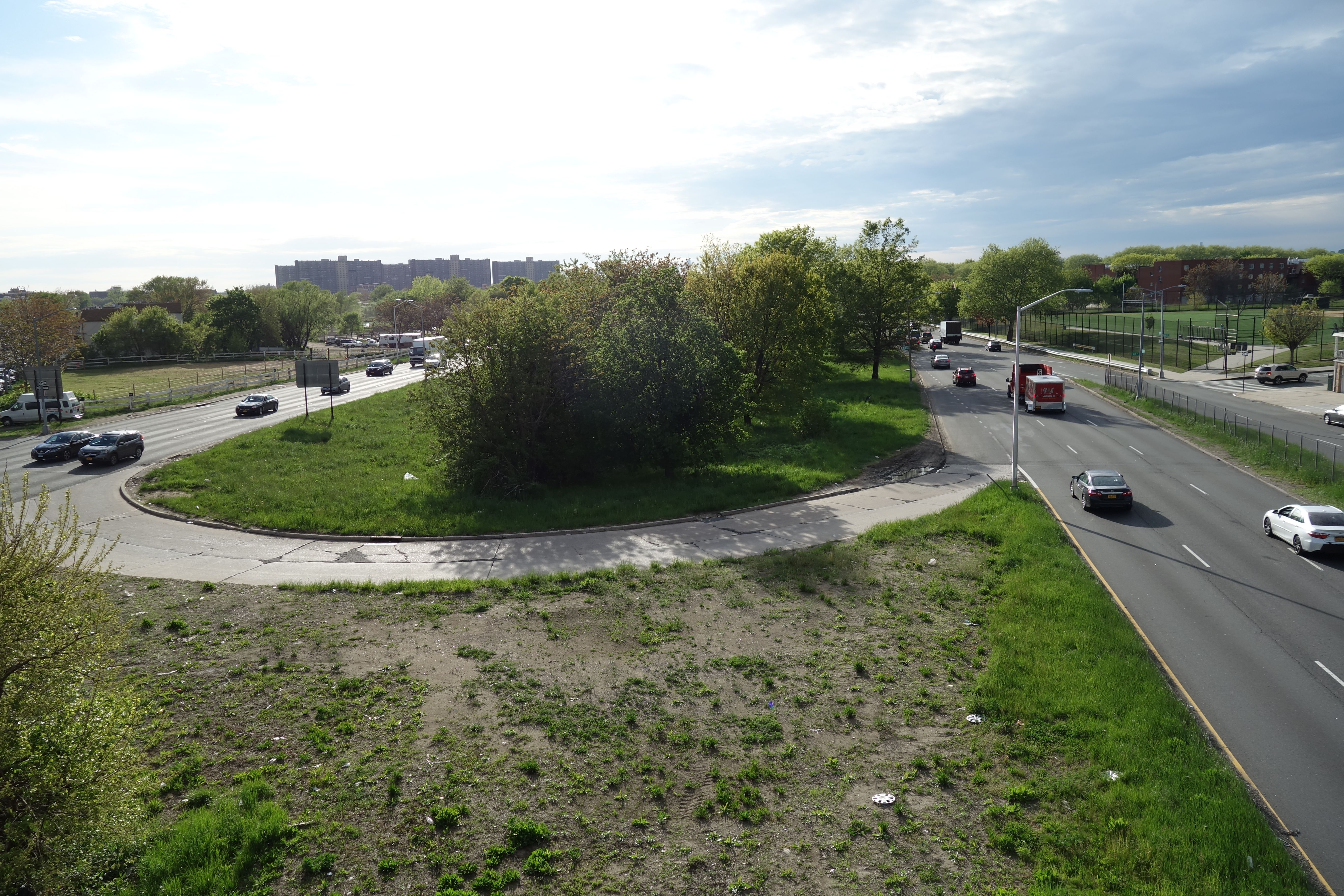 Looking west at the wide median between North and South Conduit Avenue at 88th Street from a pedestrian overpass bridge in Ozone Park / Howard Beach, Queens. The median, originally housing the Ridgewood Aqueduct, was later meant for the Nassau Expressway / Bushwick Expressway to Williamsburg, which was never built. Also note the U-turn, which allows commuters from South Conduit to access the westbound Linden Boulevard.